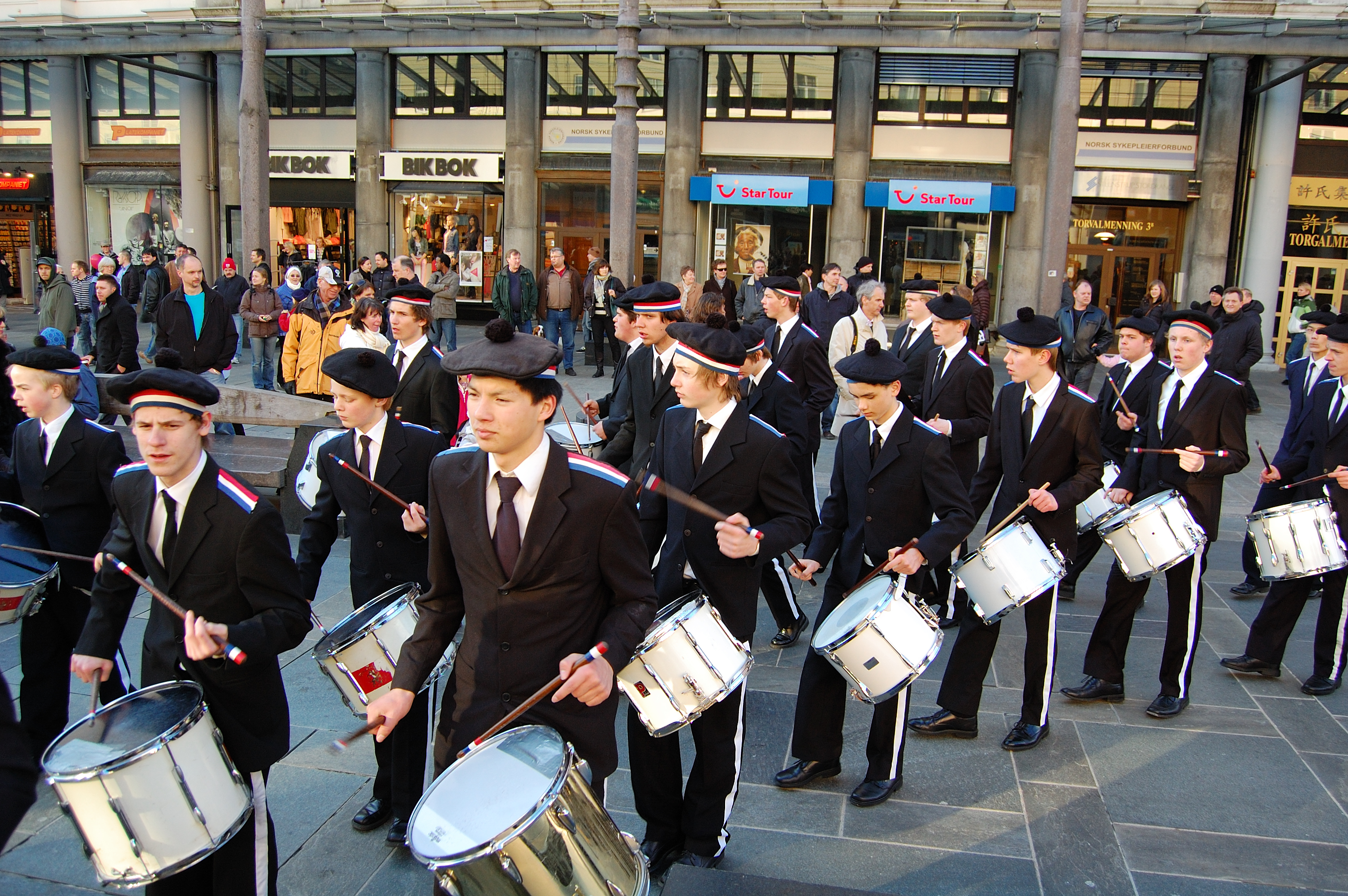 The Buekorps parade in Bergen on March 28, 2009.